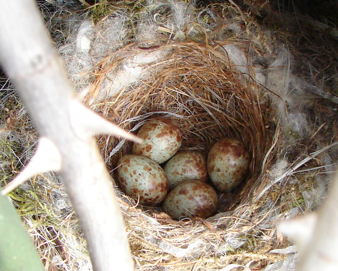 Muscicapa striata nest, picture taken by the Sognefjord